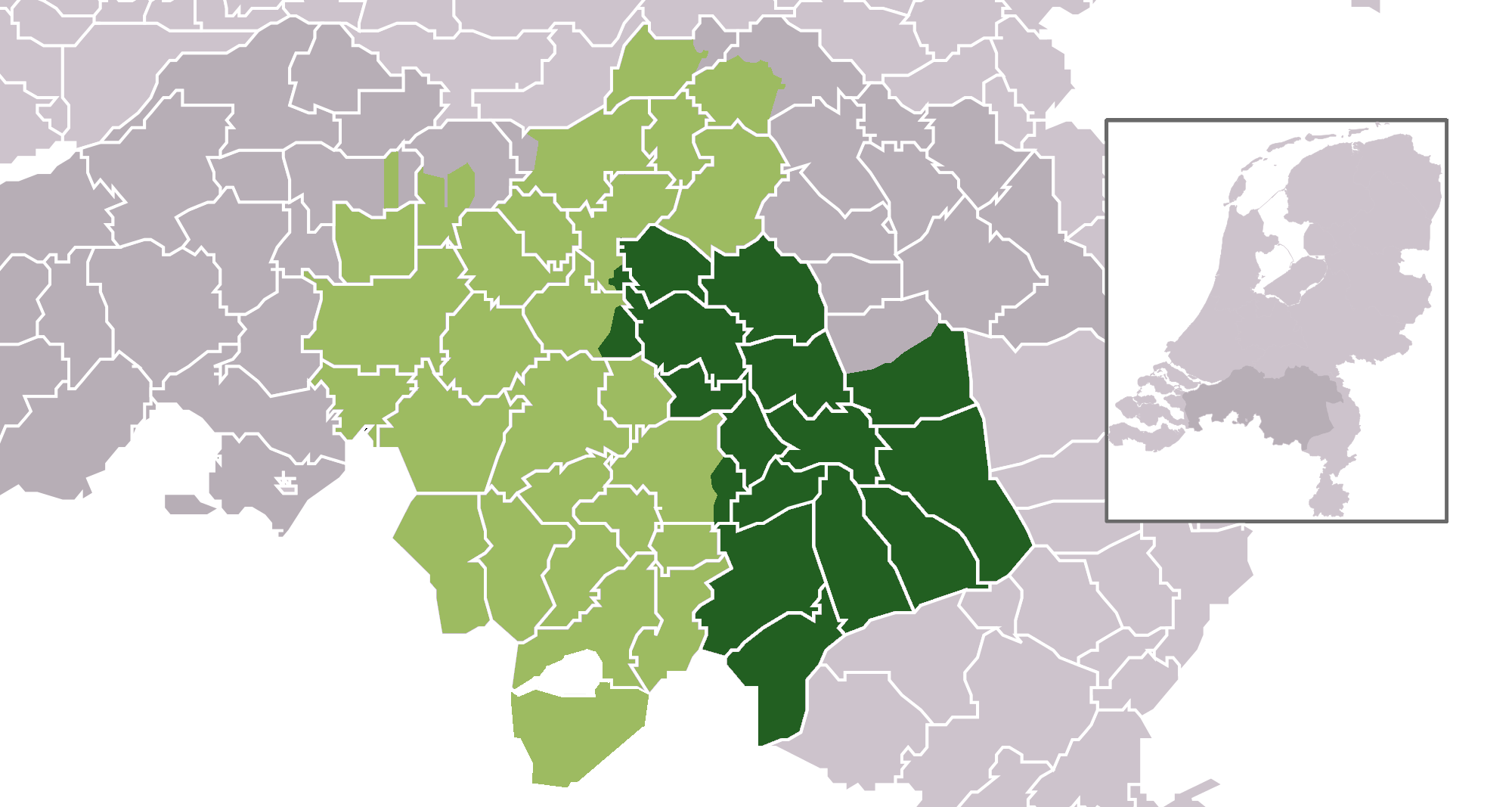 Quarter of Peelland in the historical Meierij van Den Bosch' Location maps for the 441 municipalities in the Netherlands. Boundaries 1/1/2009 Automatically generated with script File name contains "Municipality codes" (CBS-code) as specified in: [1] Created in svg using coordinate data derived from ESRI data published by Centraal Bureau voor de Statistiek, Voorburg/Heerlen. ([2]) Color coding and original design by user Mtcv (2006/2007) ([3])